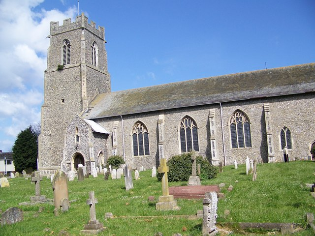 Church of St Mary the Virgin, Hemsby The church is located near the centre of Hemsby village and dedicated to Mary the Mother of Our Lord. The present building dates from early 14th Century. The building consists of a chancel, nave & south porch in the decorated & perpendicular style.